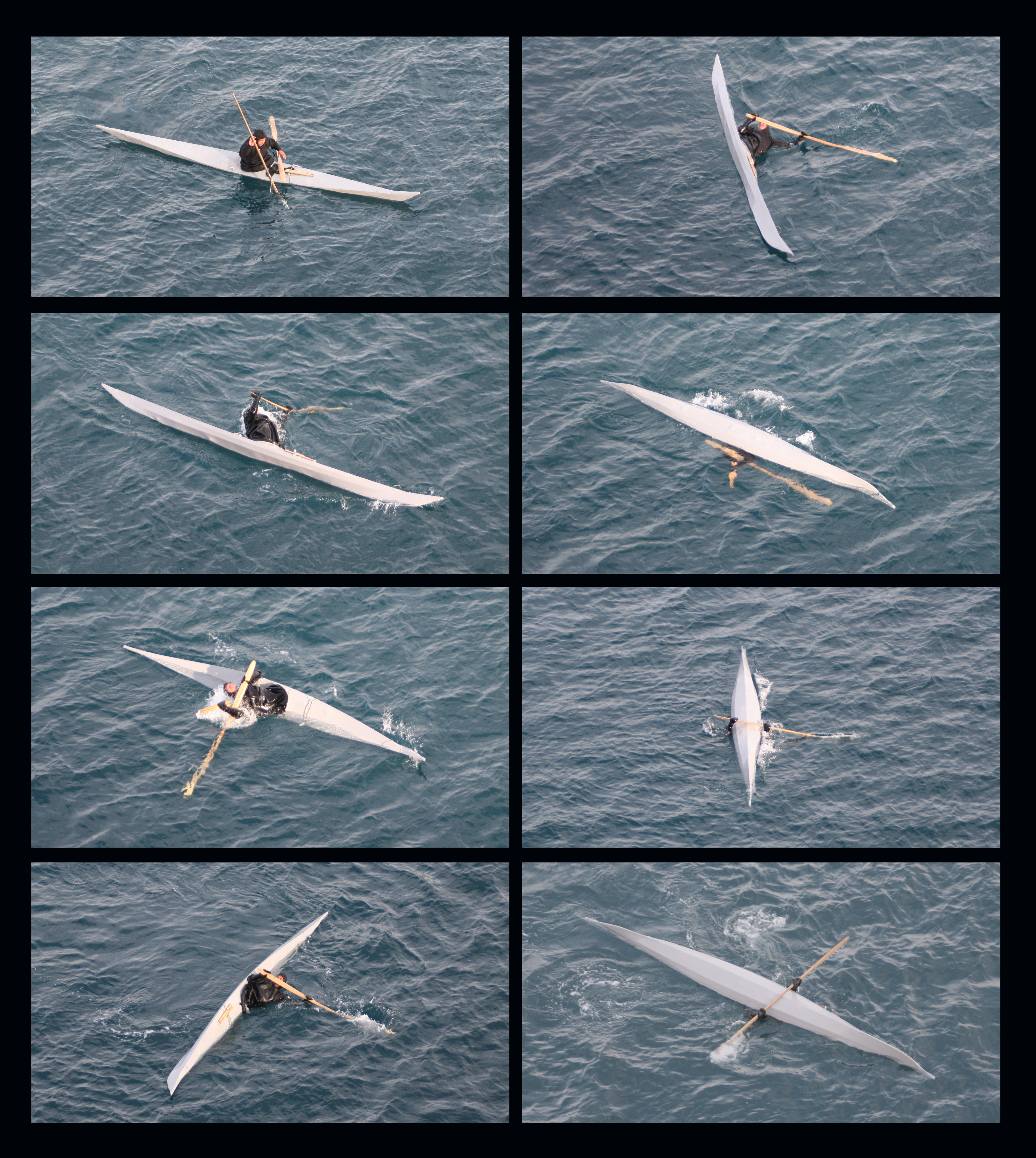 Inuit man demonstrates traditional kayaking technique used for hunting on narwhal in Qaanaaq (photo-montage)